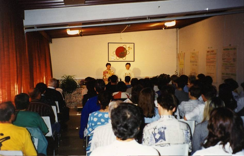 Master Aiping Wang at Celje Shen Qi school in 1997